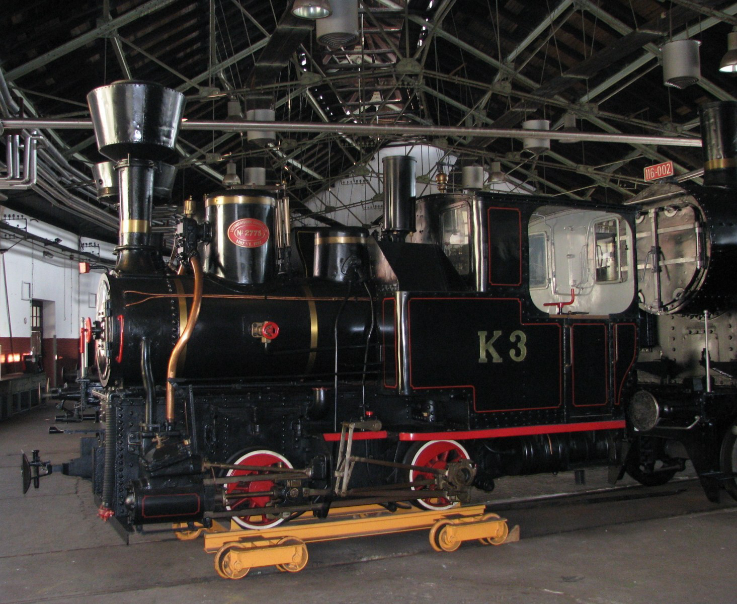 Narrow gauge locomotive K.3 in Railway Museum of the Slovenian Railways